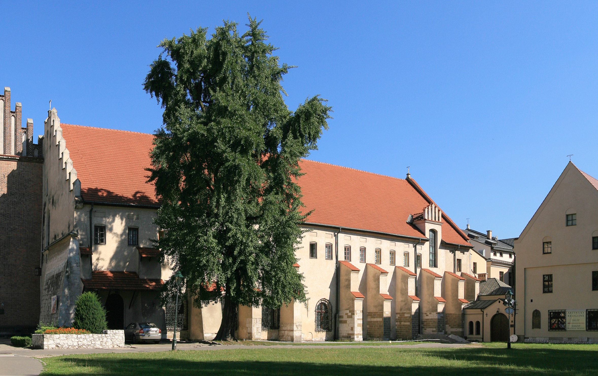 St. Francis Monastery, Kraków